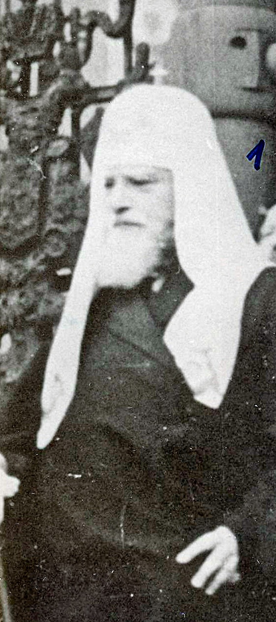 Patriarch Alexius of Moscow in Bulgaria.